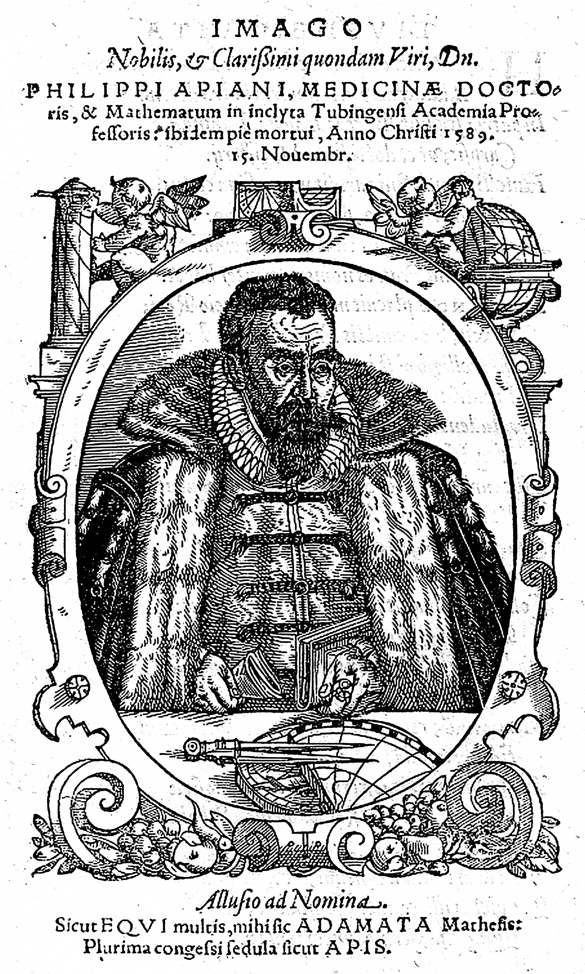 Philipp Apian (September 14, 1531 – November 15, 1589) was a German mathematician and medic. He is known as the cartographer of Bavaria.